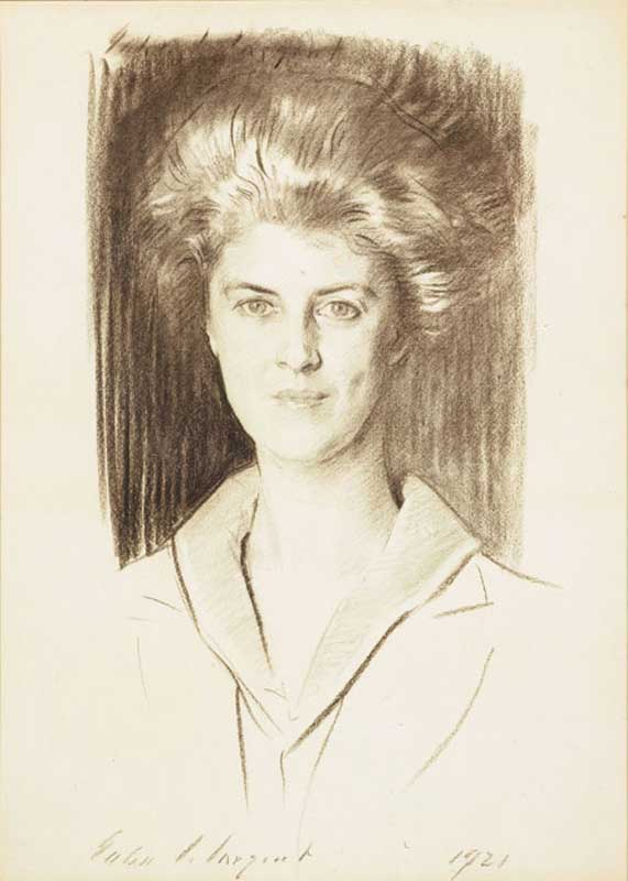 John Singer Sargent (1856–1925). Eleonora Randolph Sears, 1921